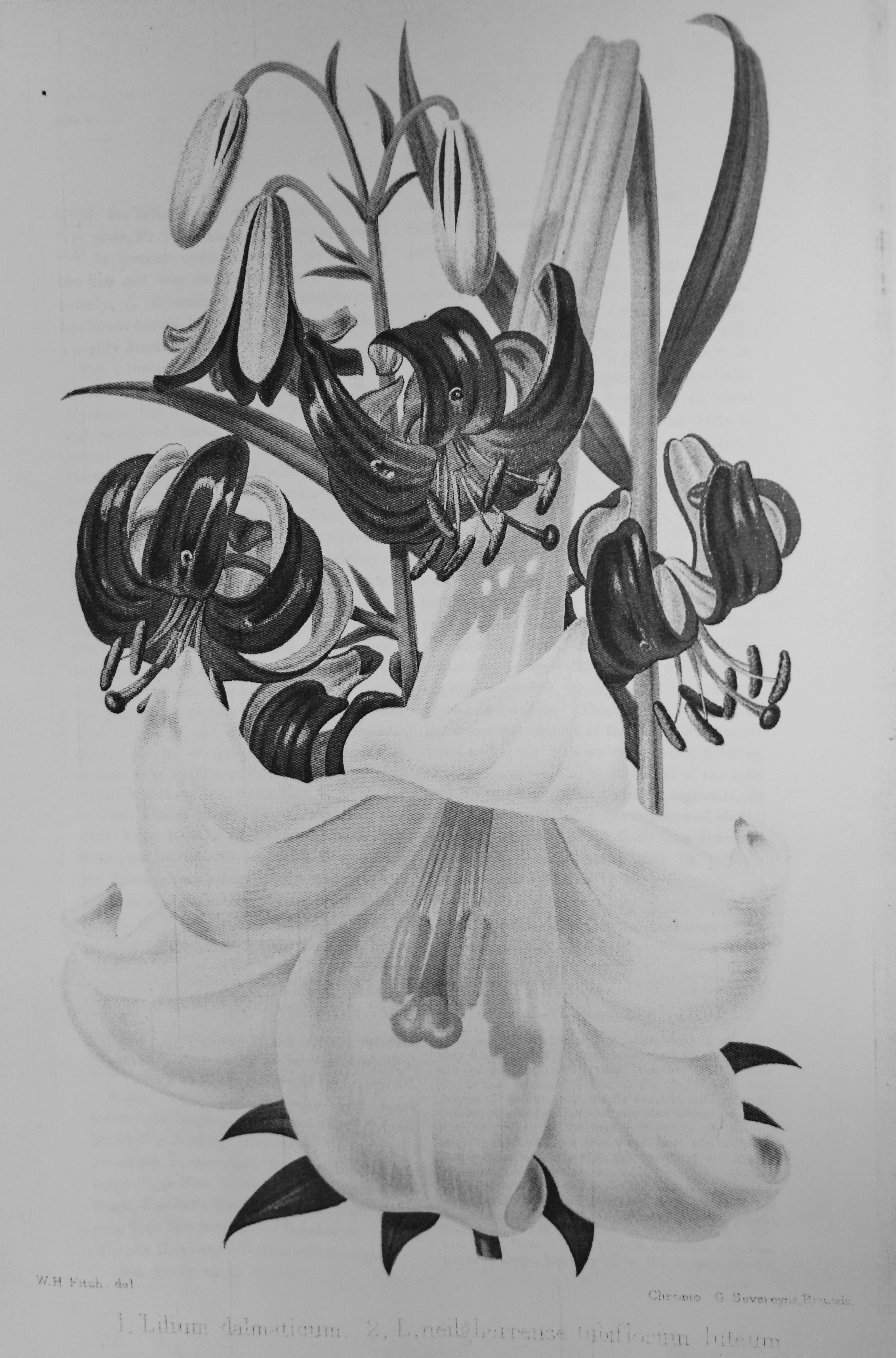 Lilium dalmaticum and Lilium neilgherrense, chromo Guillaume Severeyns